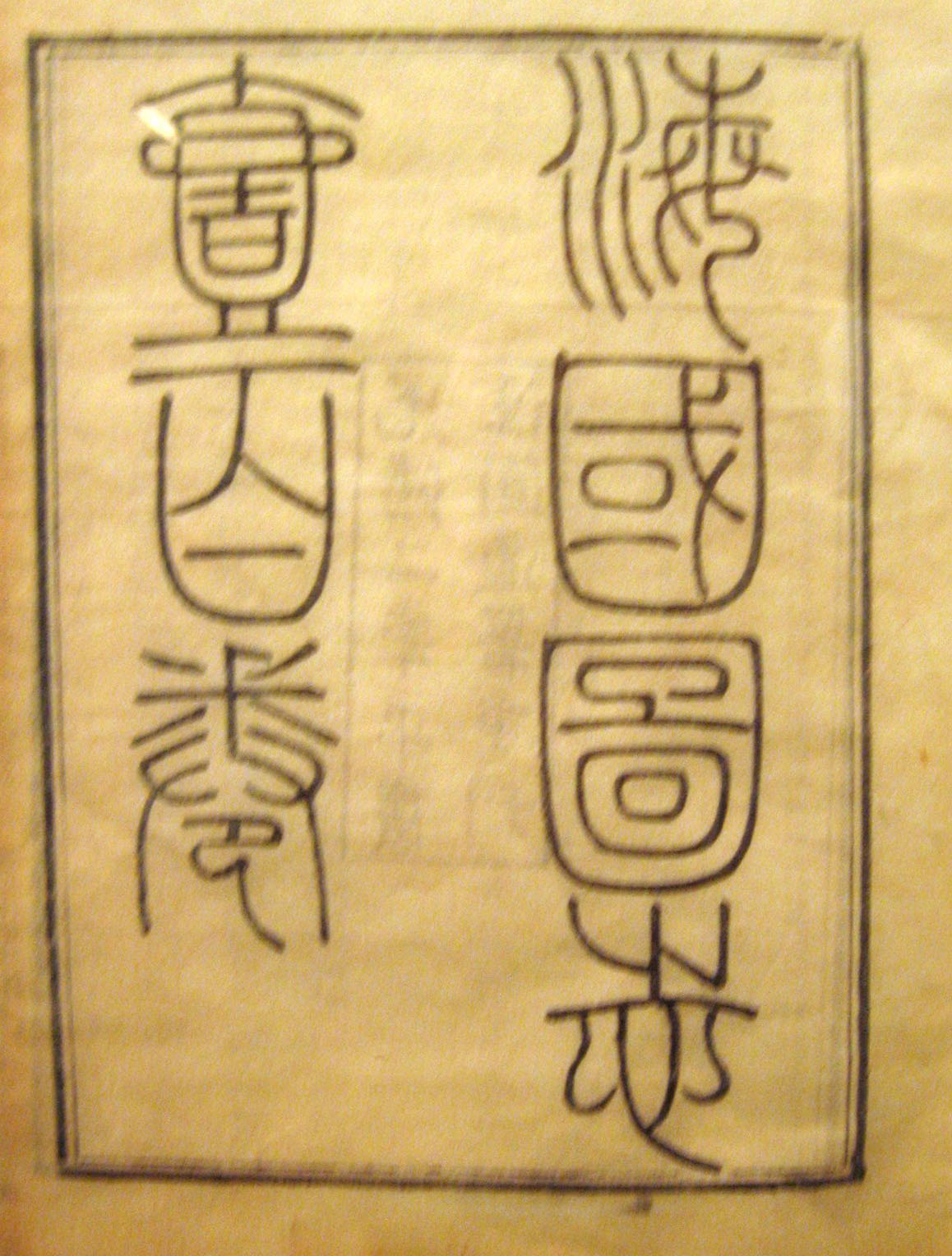 Haiguotuzhi by Wei Yuan, photo by Mountain at Cai Yuanpei Memorial in Shanghai.